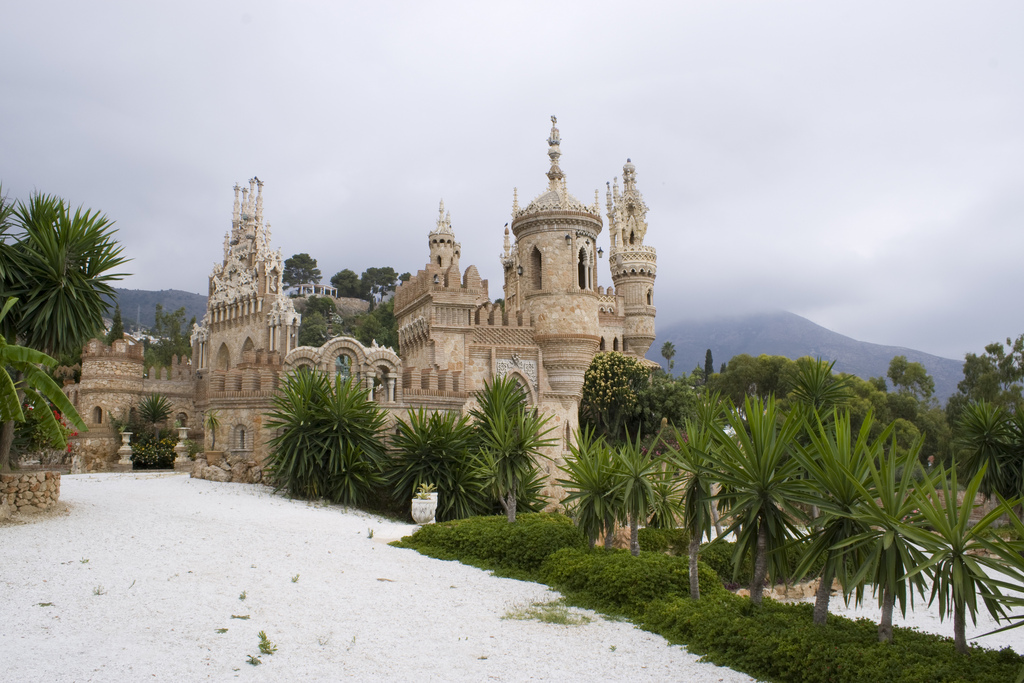 Castillo de Colomares, Benalmádena, Spain